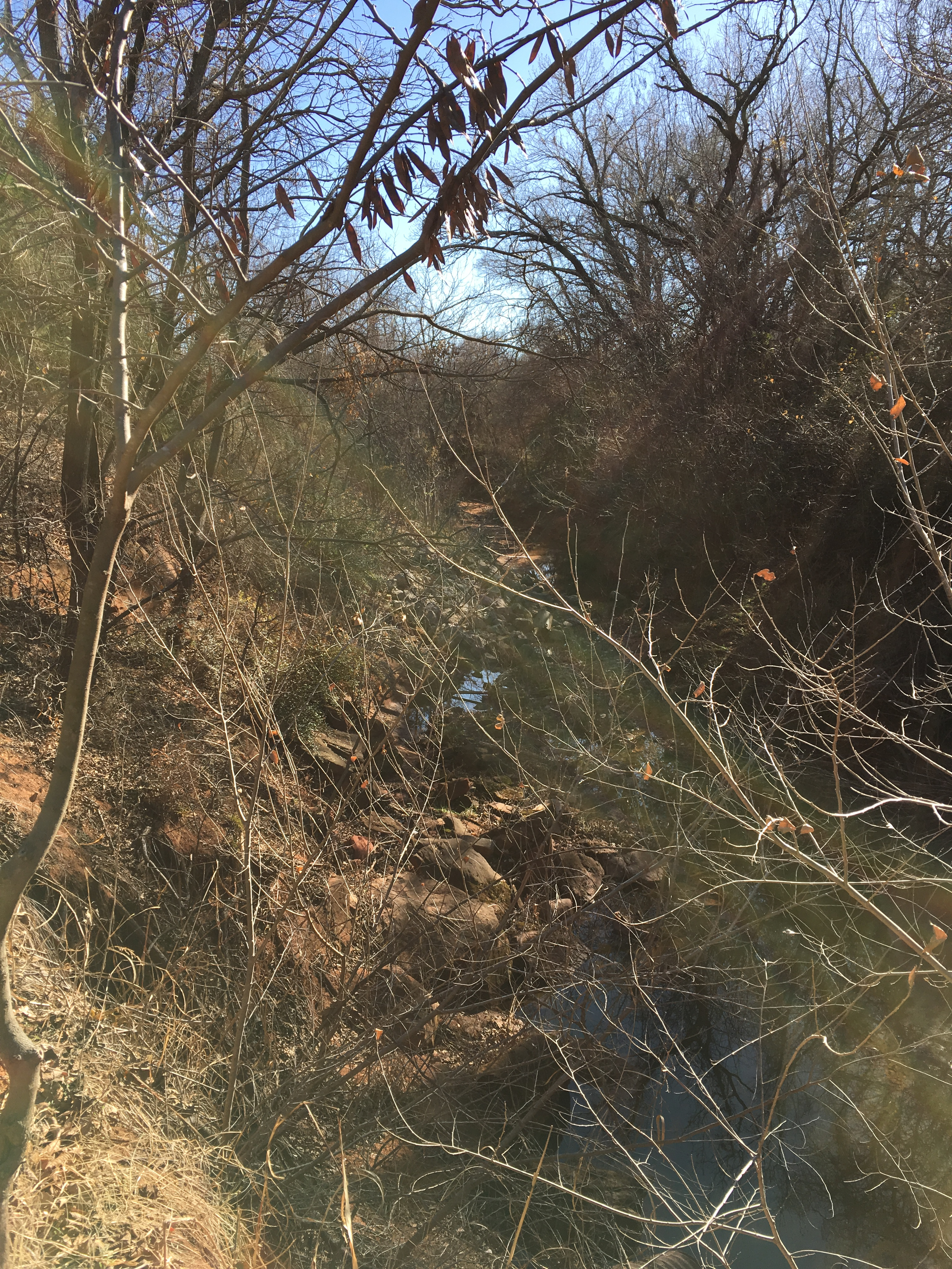 Spring Creek is a tributary of Deep Fork River. It runs south of old Edmond, easterly roughly parallel to 33rd street. Photo was taken from south edge of E.C. Hafer Park, Edmond, Oklahoma.